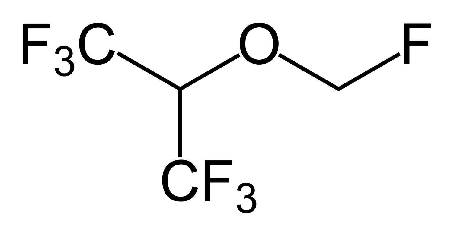 Chemical structure of the anaesthetic sevoflurane